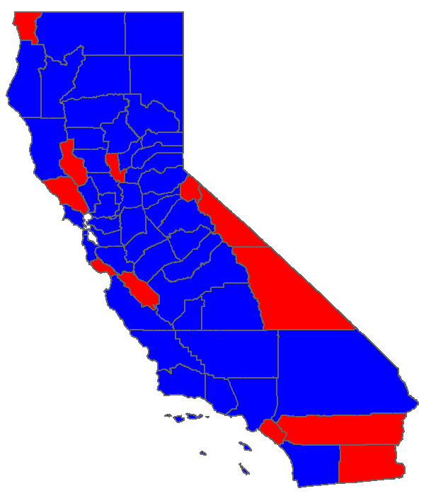 Map of election results by county in California for the 1944 U.S. Presidential election